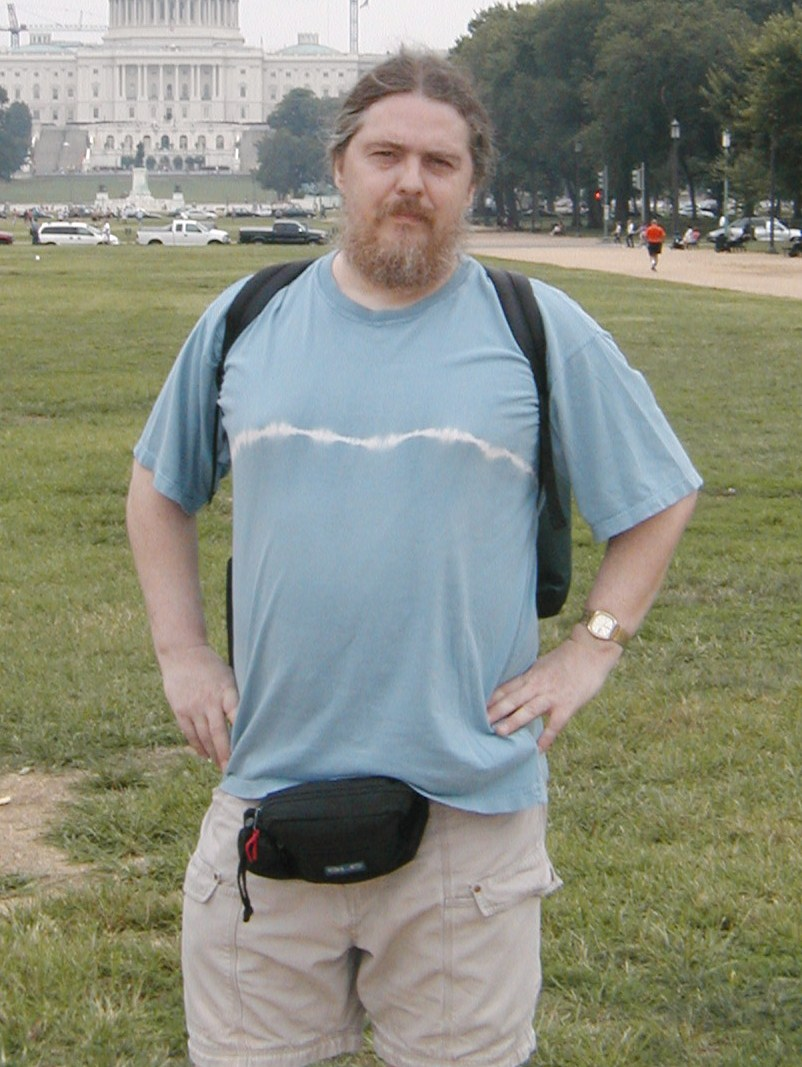 Picture of Robin Crossby in Washington, DC